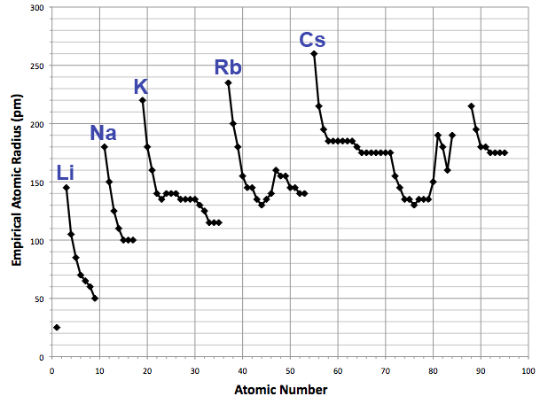 A plot of atomic number against empirical atomic radius, measured in picometers, created in Microsoft Excel 2008.